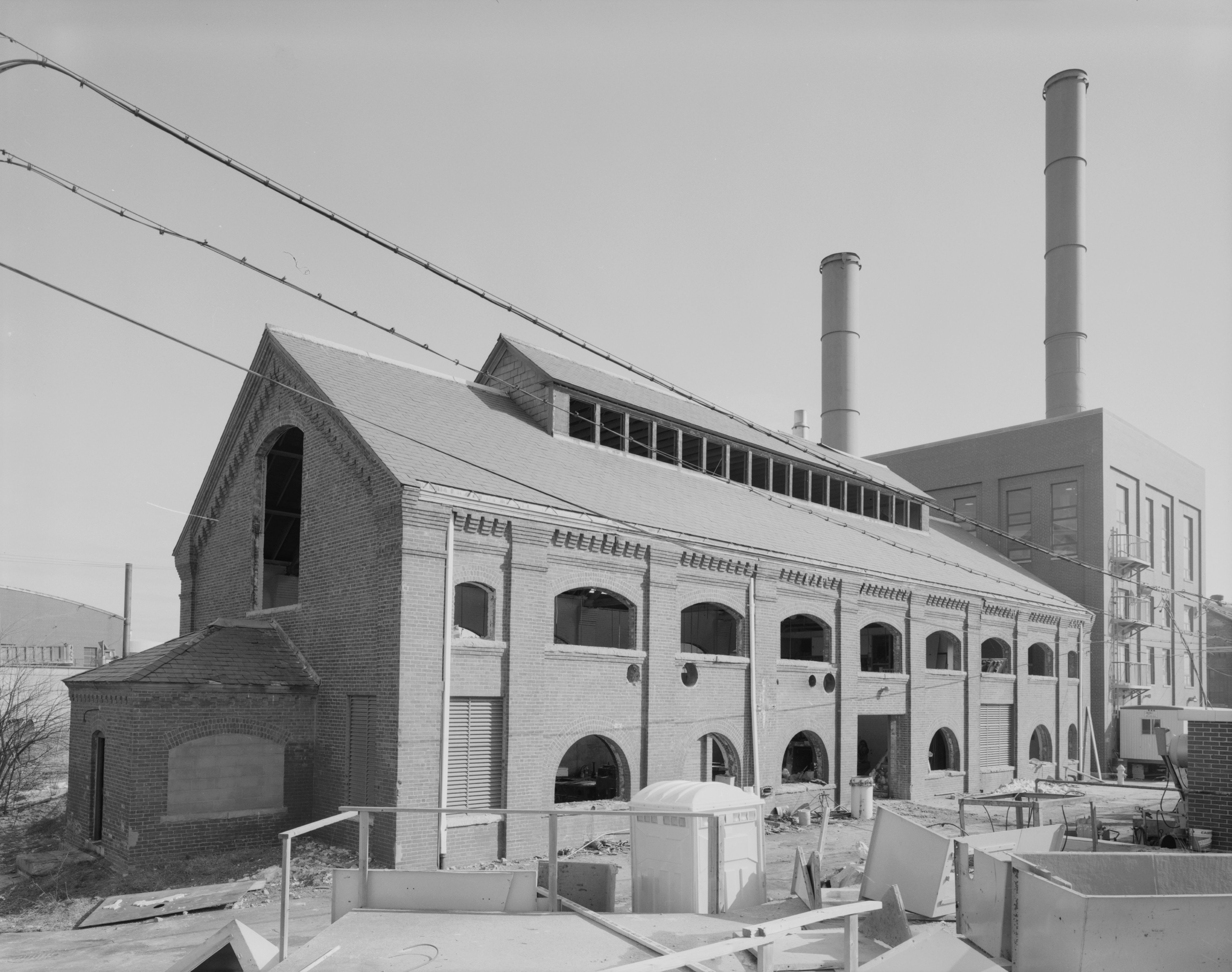 Providence Sewage Treatment System, Fields Point Plant, Chemical House, Ernest Street, Providence, Providence County, RI